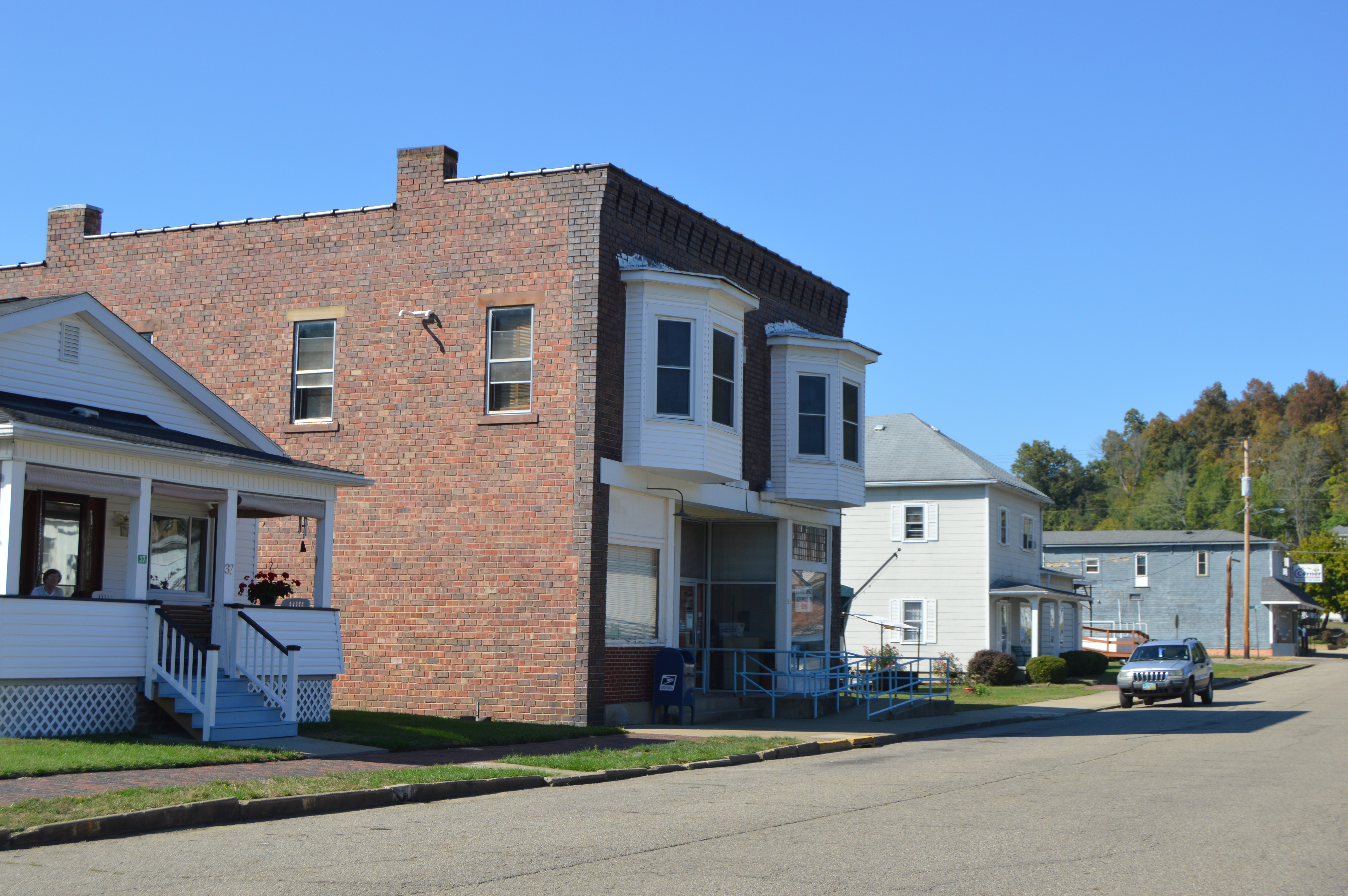 Buildings on the western side of Sixth Street, south of Main Street, in Jacksonville, Ohio, United States.